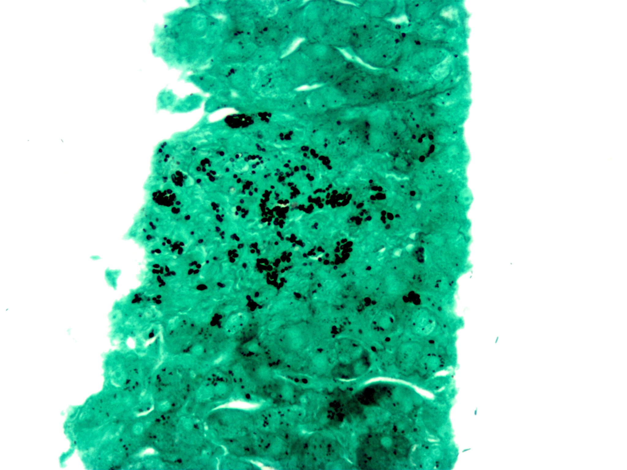 Micrograph showing histoplasmosis in a granuloma. Liver biopsy. Gomori's Methenamine Silver (GMS) stain. Histoplasma = clumps of black circles. Granuloma = large circle with big clumps of histoplasma in it. Related images PAS-D. PAS-D. PAS-D. GMS.